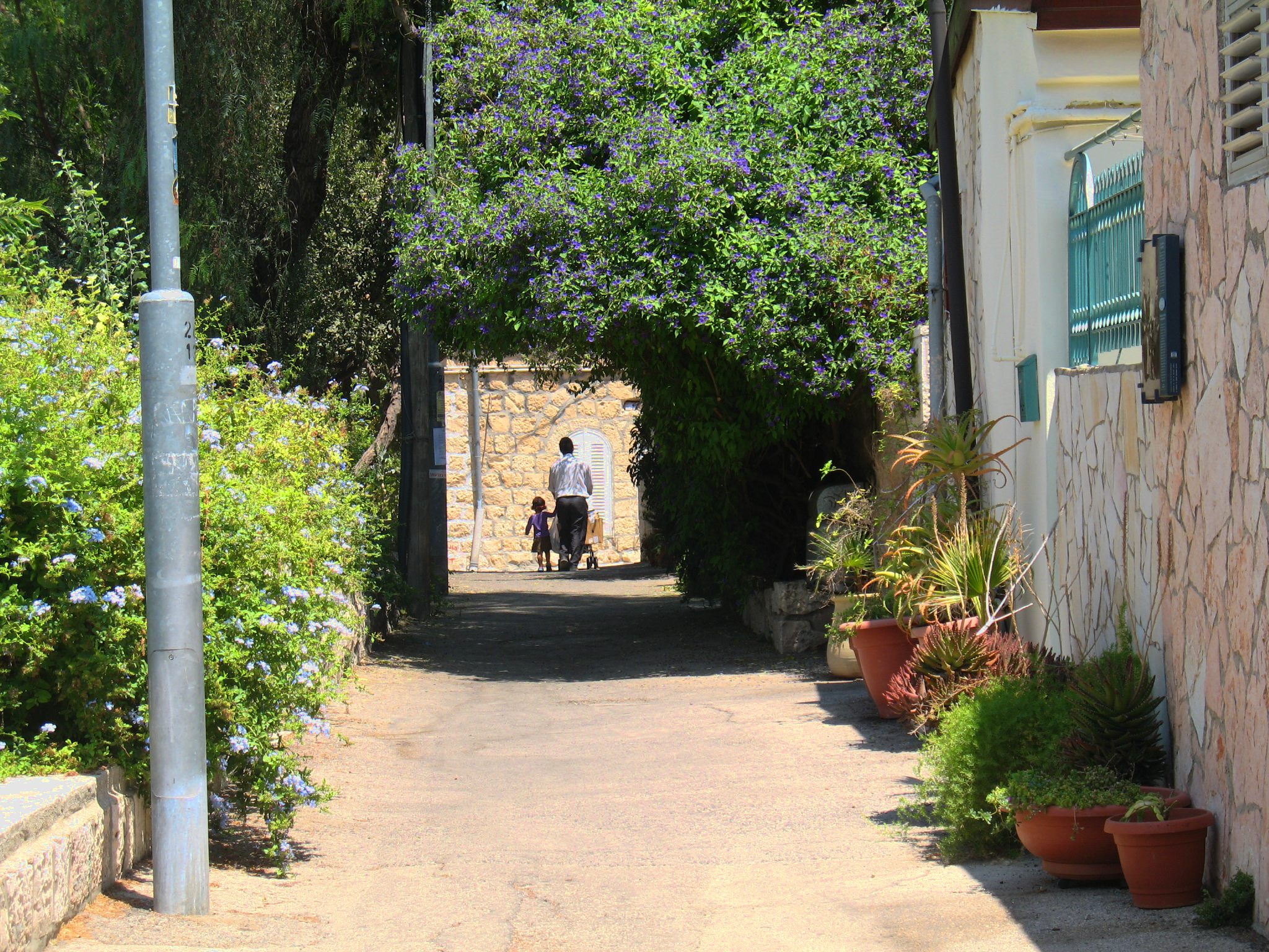 Nachlaot, Jerusalem, Ohel Moshe street